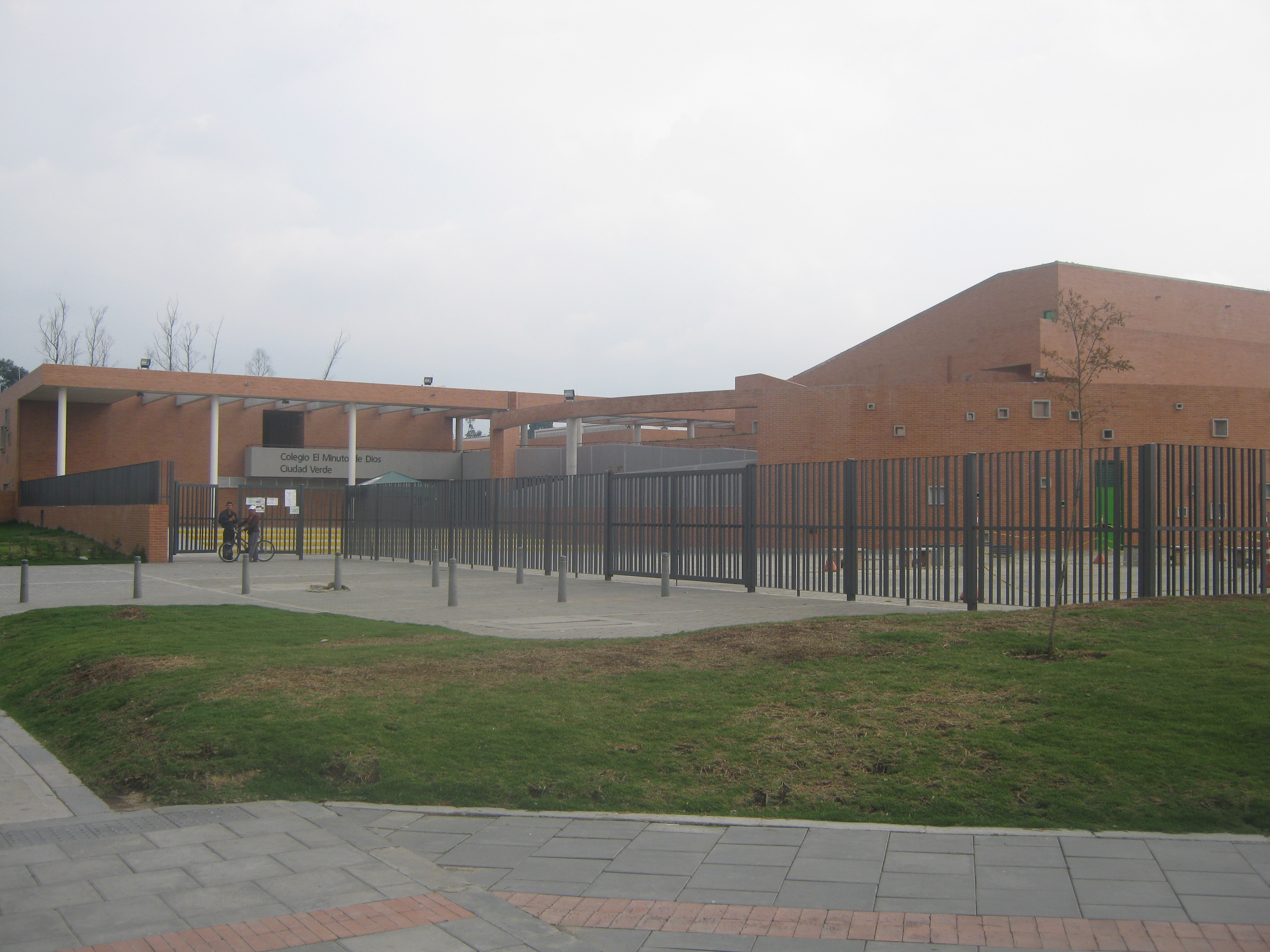 Colegio Minuto de Dios, Ciudad Verde